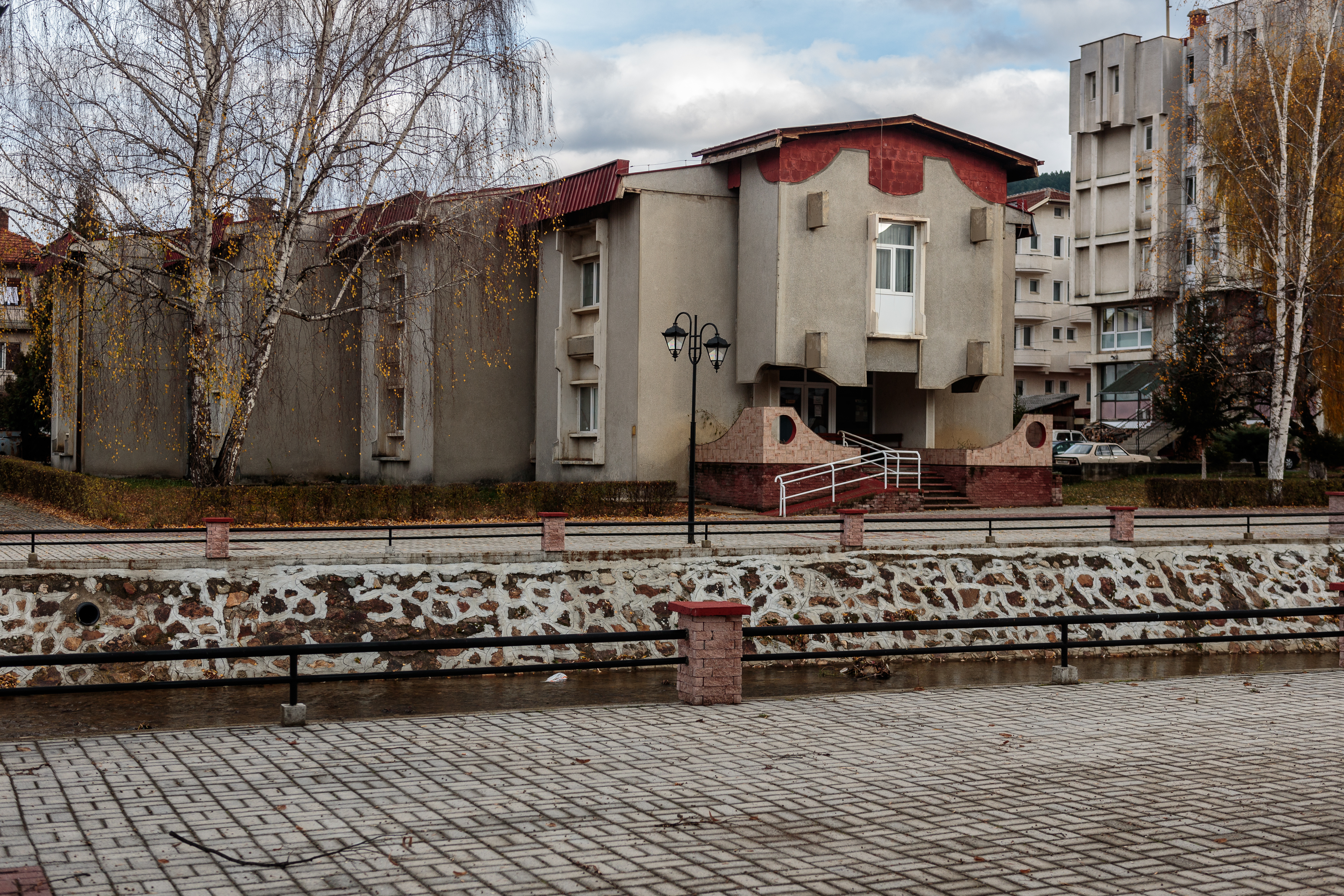 Primary court in Berovo, Macedonia